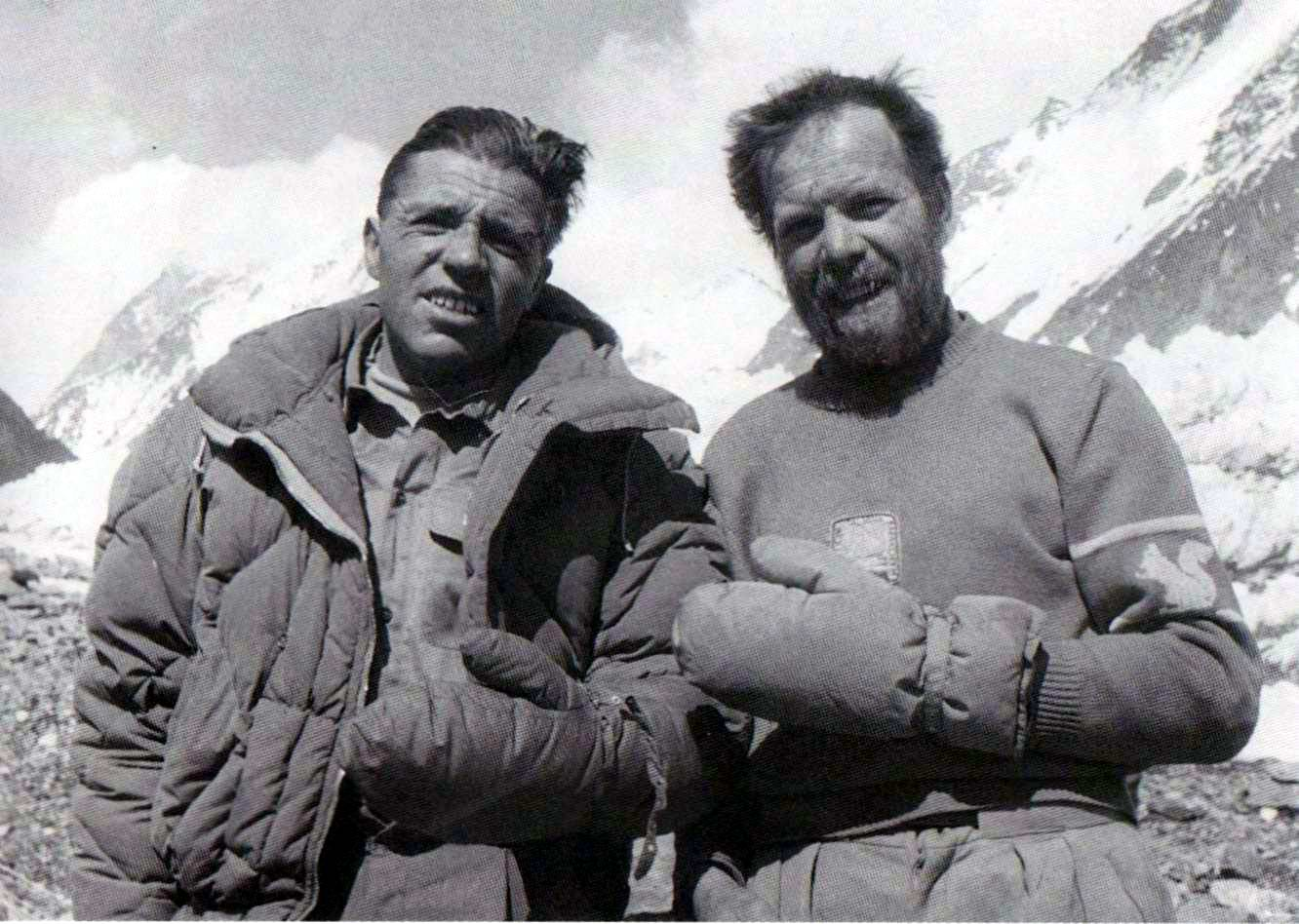 Achille Compagnoni (left} and Lino Lacedelli at K2 base camp, August 1954. Frost bitten after their return from the summit on the 1954 Italian K2 expedition